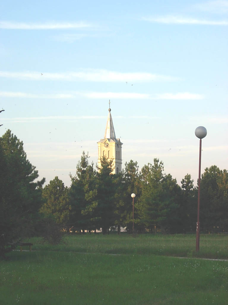 Saint Ana, Mother of Blessed Virgin Mary Catholic Church in Glogonj.